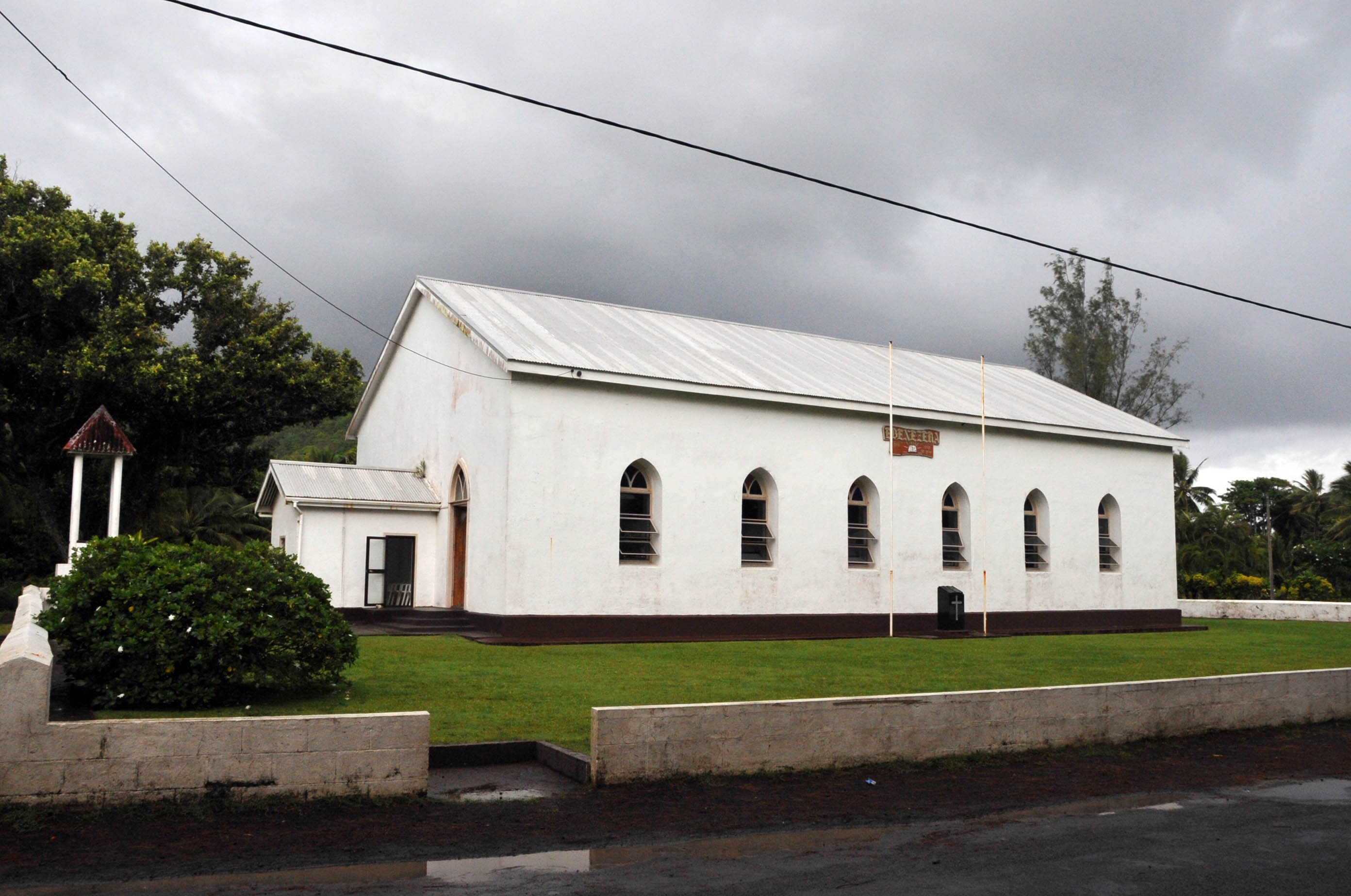 CICC AT NGATANGIAA BAY DATING FROM 1911